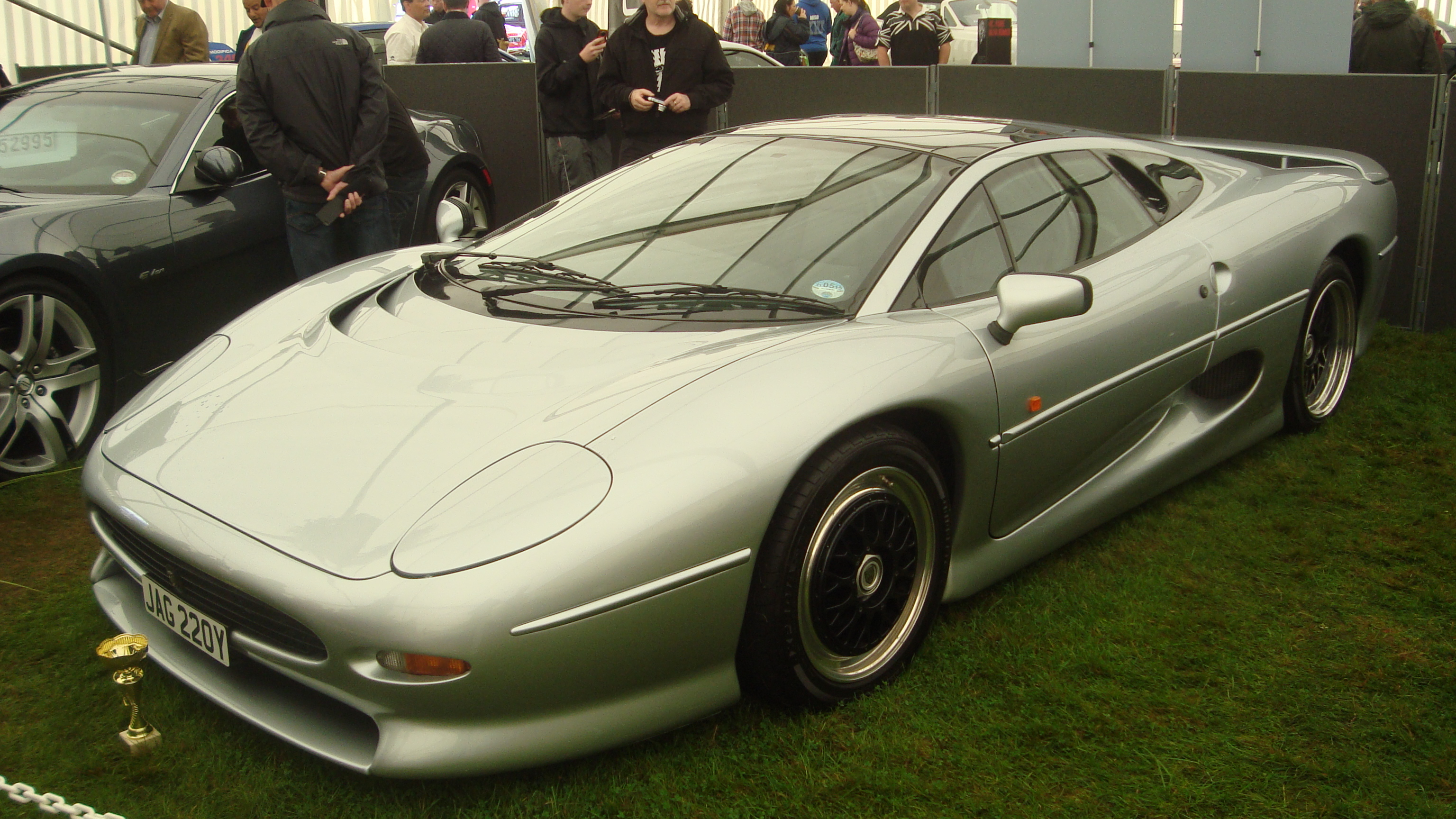 Still one of the best looking supercars built in my opinion